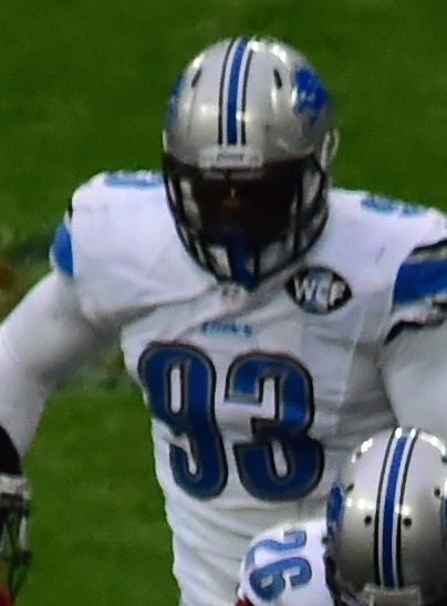 Detroit Lions vs Atlanta Falcons - Wembley 2014